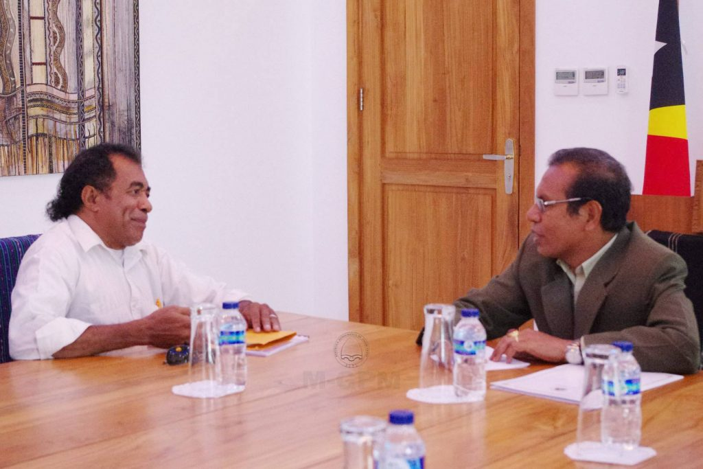 Paulo Alves Sarmento und Osttimors Premierminister Taur Matan Ruak